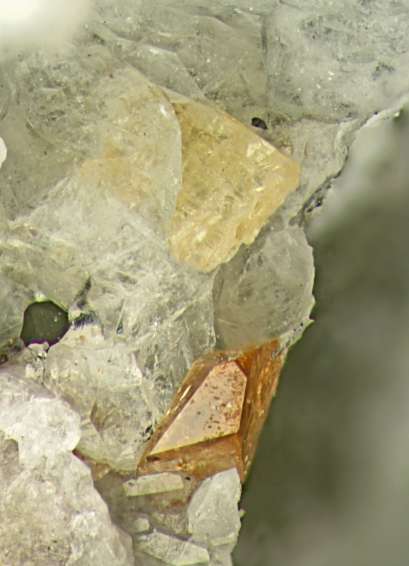 Wöhlerite, Titanite (FOV 2.0 x 2.8 mm) Locality: Poudrette quarry (Demix quarry; Uni-Mix quarry; Desourdy quarry; Carrière Mont Saint-Hilaire), Mont Saint-Hilaire, Rouville RCM, Montérégie, Québec, Canada Original description: Lemon yellow wöhlerite (partly enclosed by transparent analcime) with very sharp orange titanite from a miarolitic cavity.